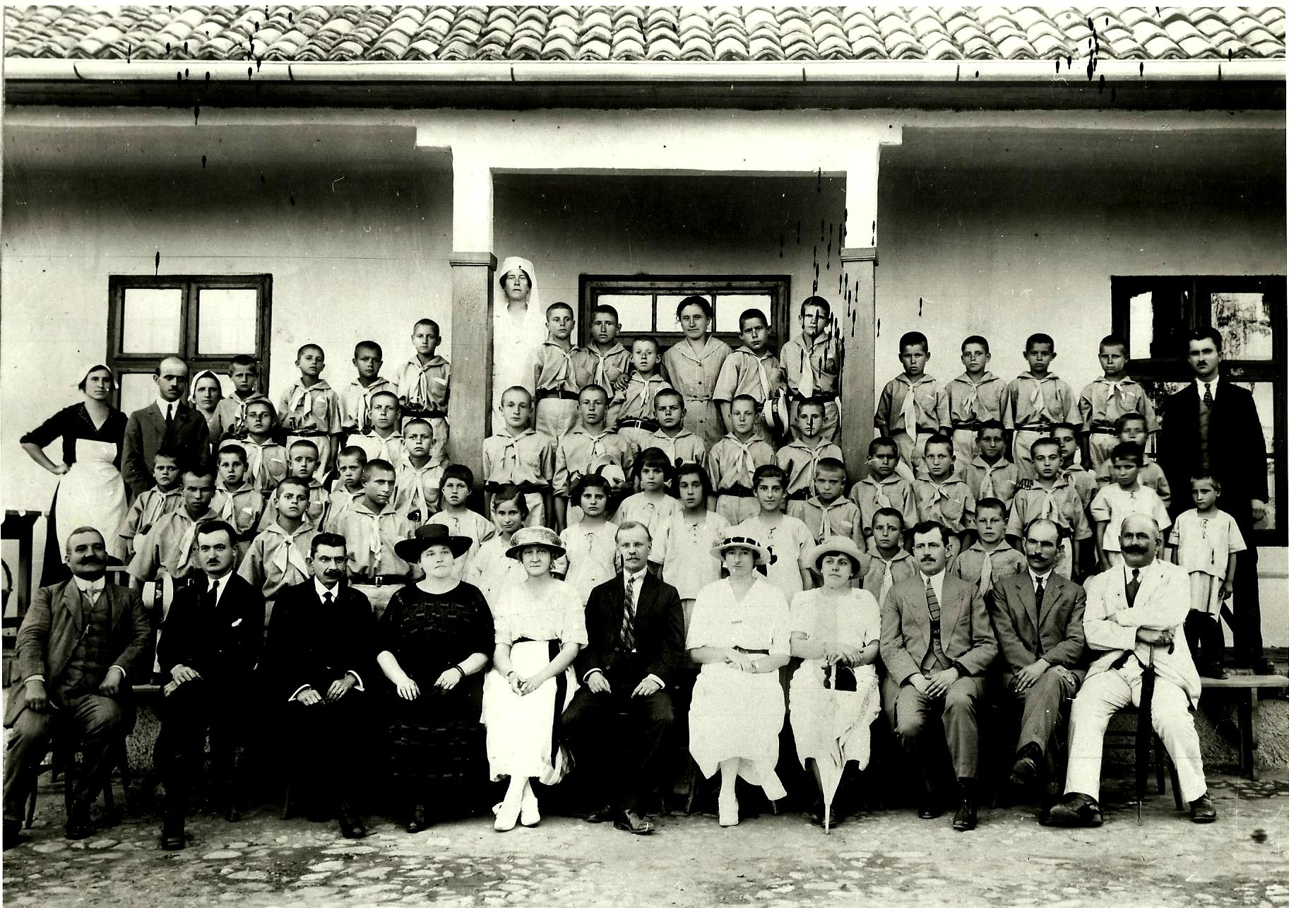 Poseta Dzona Frotingama Аmerikanskom vaspitnom domu u Vranju 1921.